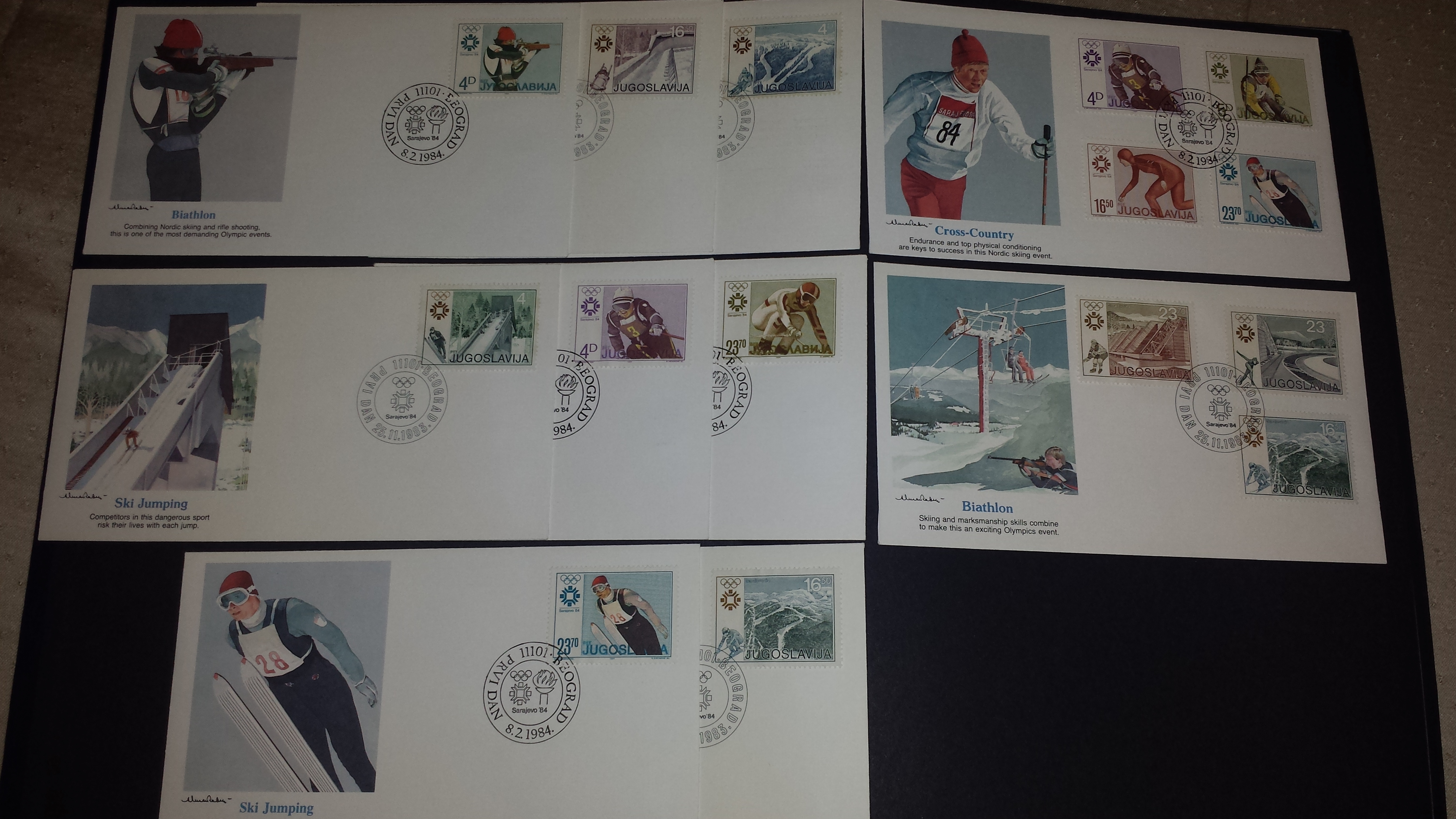 Yugoslavia postage stamps First Day Issue (Belgrade ink impression) Sarajevo 1984 Winter Olympics